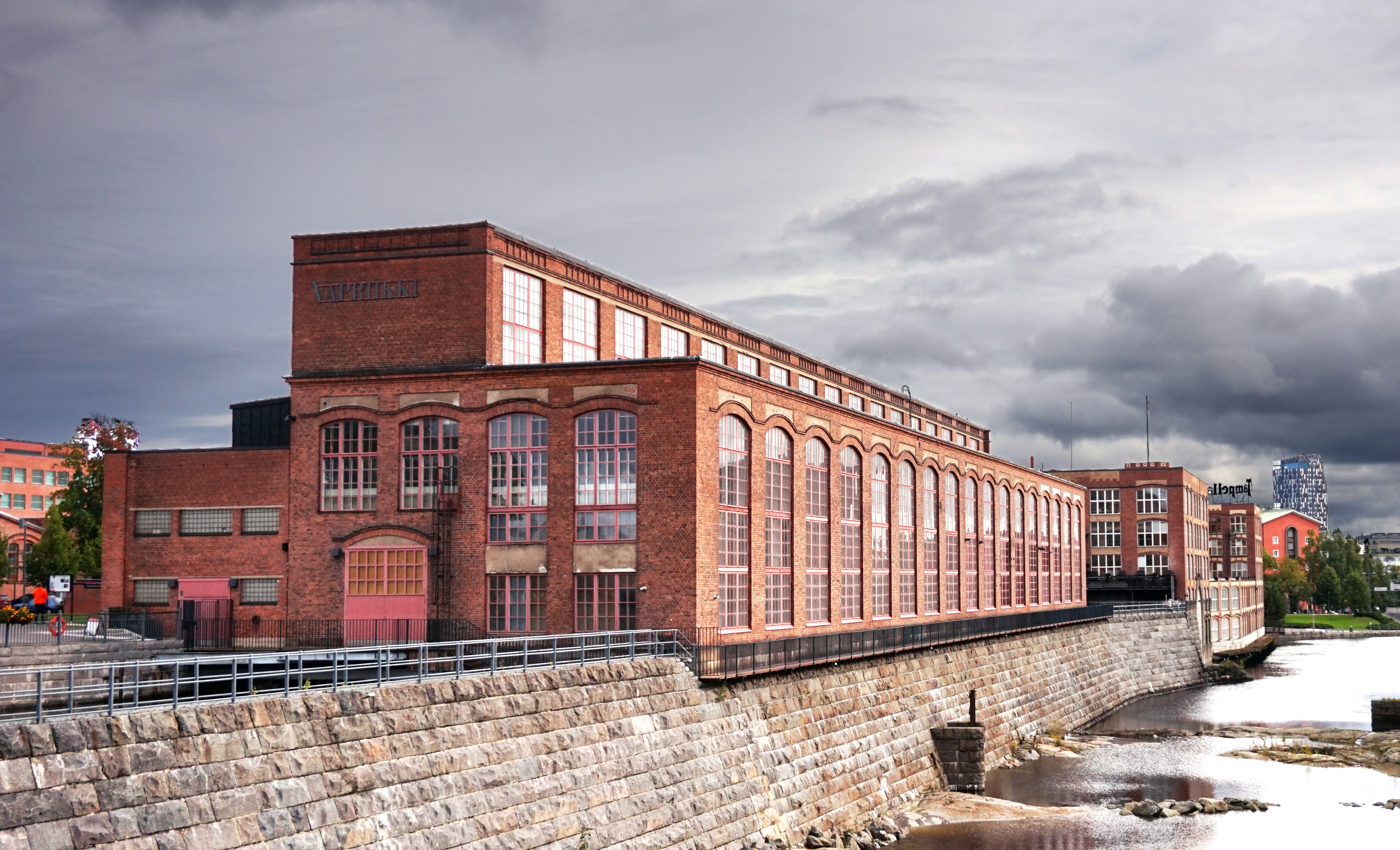 Museum Centre Vapriikki, Tampere. This is a photo of a monument in Finland identified by the URL 5021